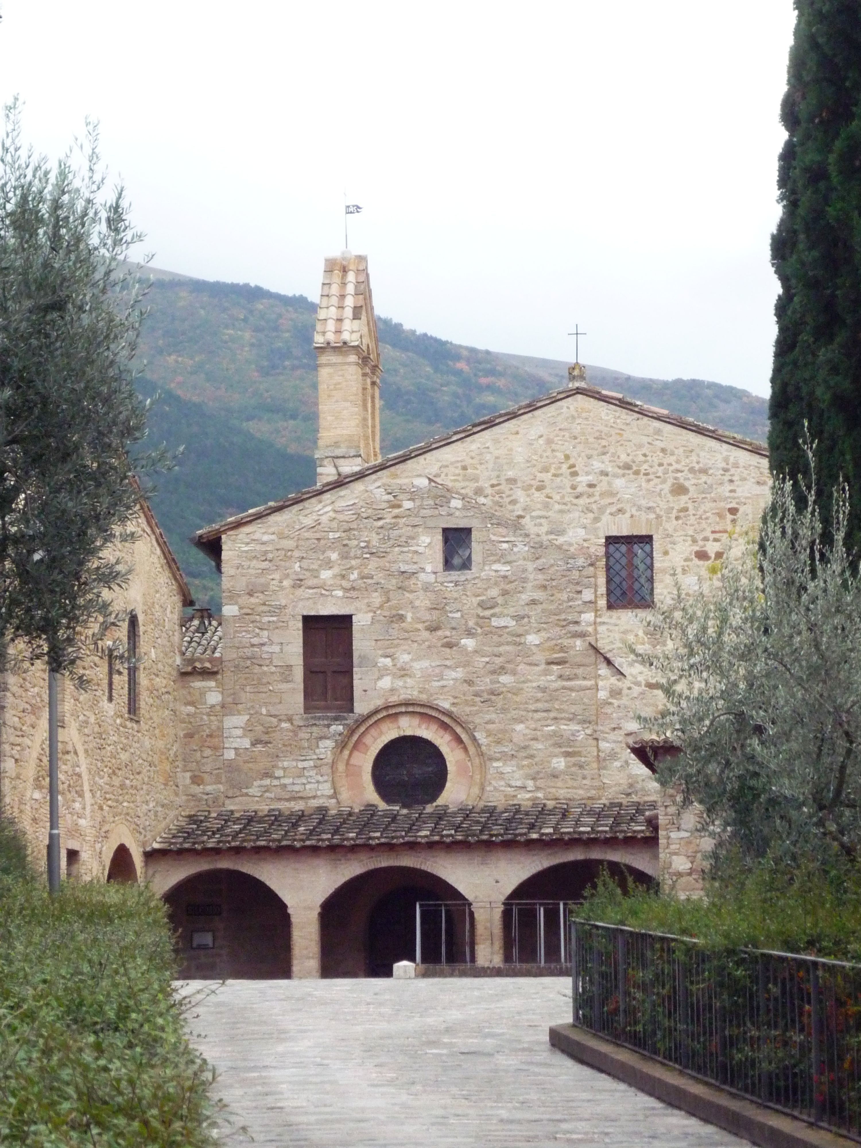 San Damiano, Assisi - external view